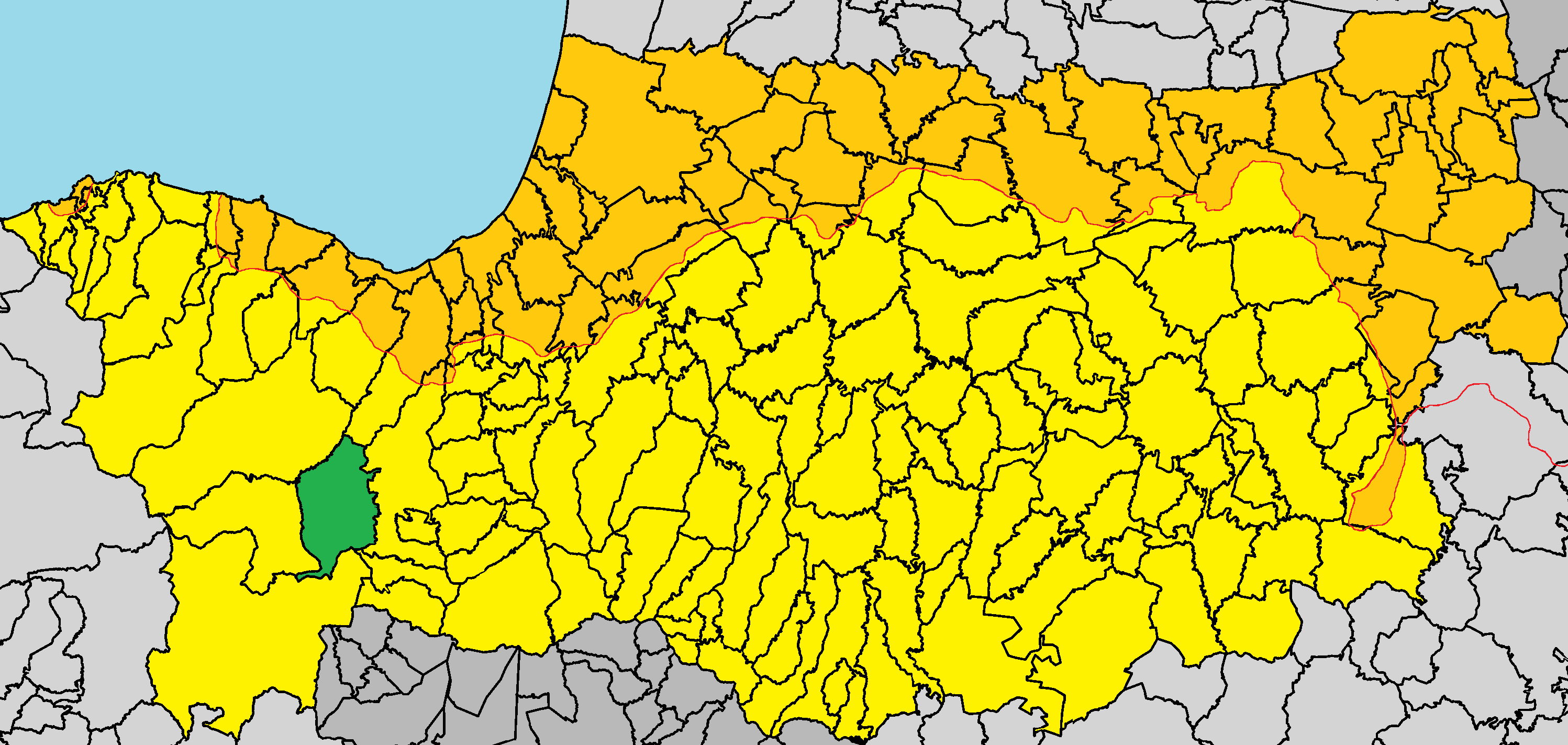 Gerakies in Nicosia District.